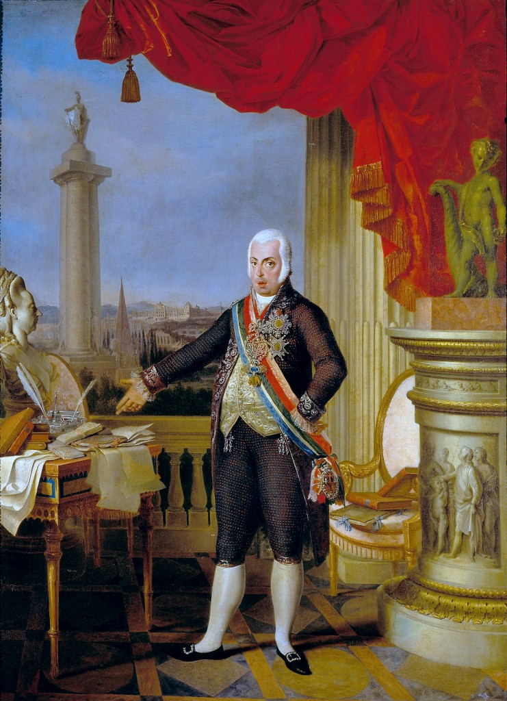 Portrait of John, Prince Regent of Portugal, in the Ajuda National Palace.